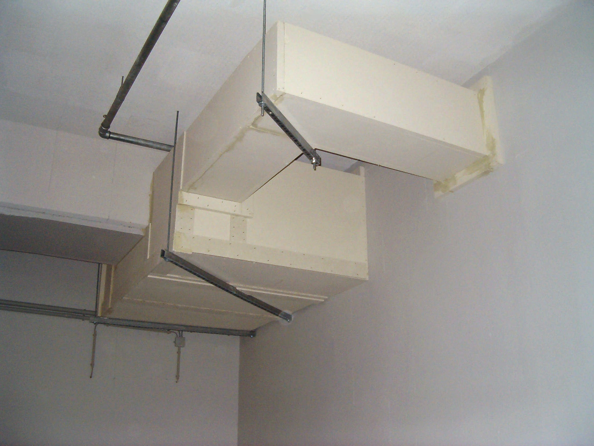 Circuit Integrity Fireproofing of Cable trays in Lingen/Ems, Germany using Calcium silicate board system qualified to DIN 4102. Contractor: Signum, Bissendorf, Germany.